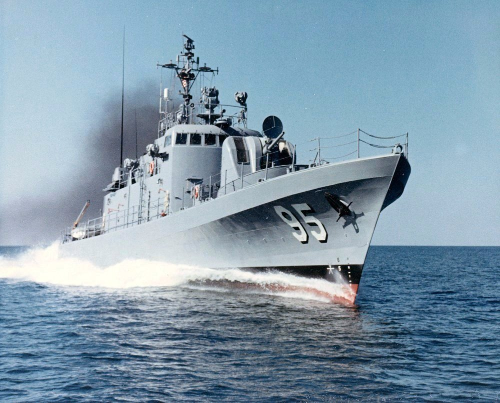 The U.S. Navy gunboat USS Defiance (PG-95) underway during trials.